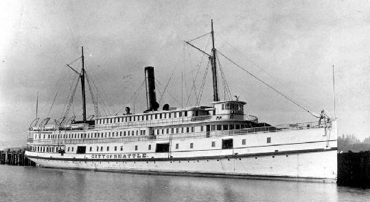 Steamship City of Seattle alongside wharf in Victoria BC harbor, circa 1897.